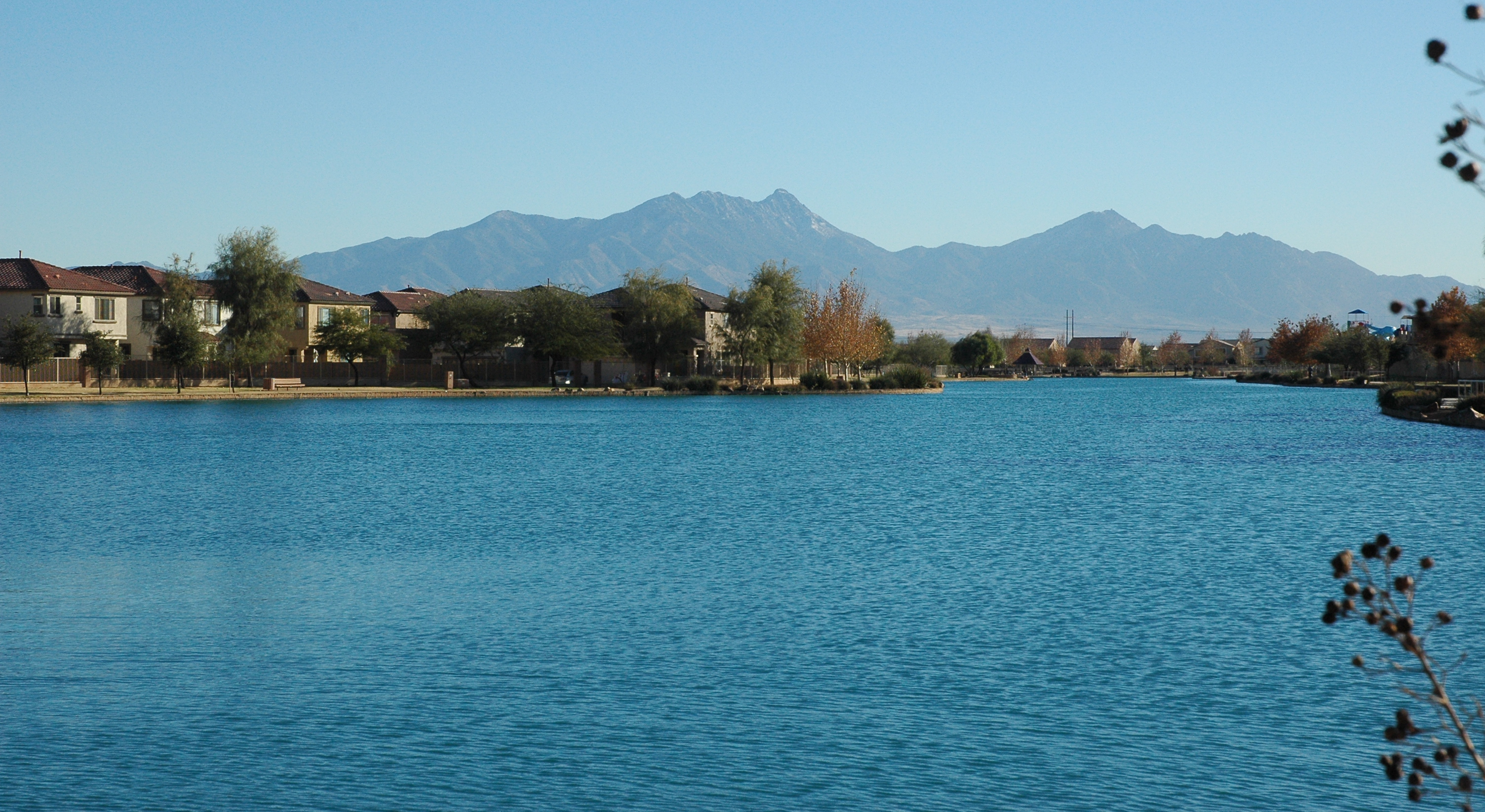 A view from the northern edge of Sahuarita Lake, Arizona, in the winter of 2007.